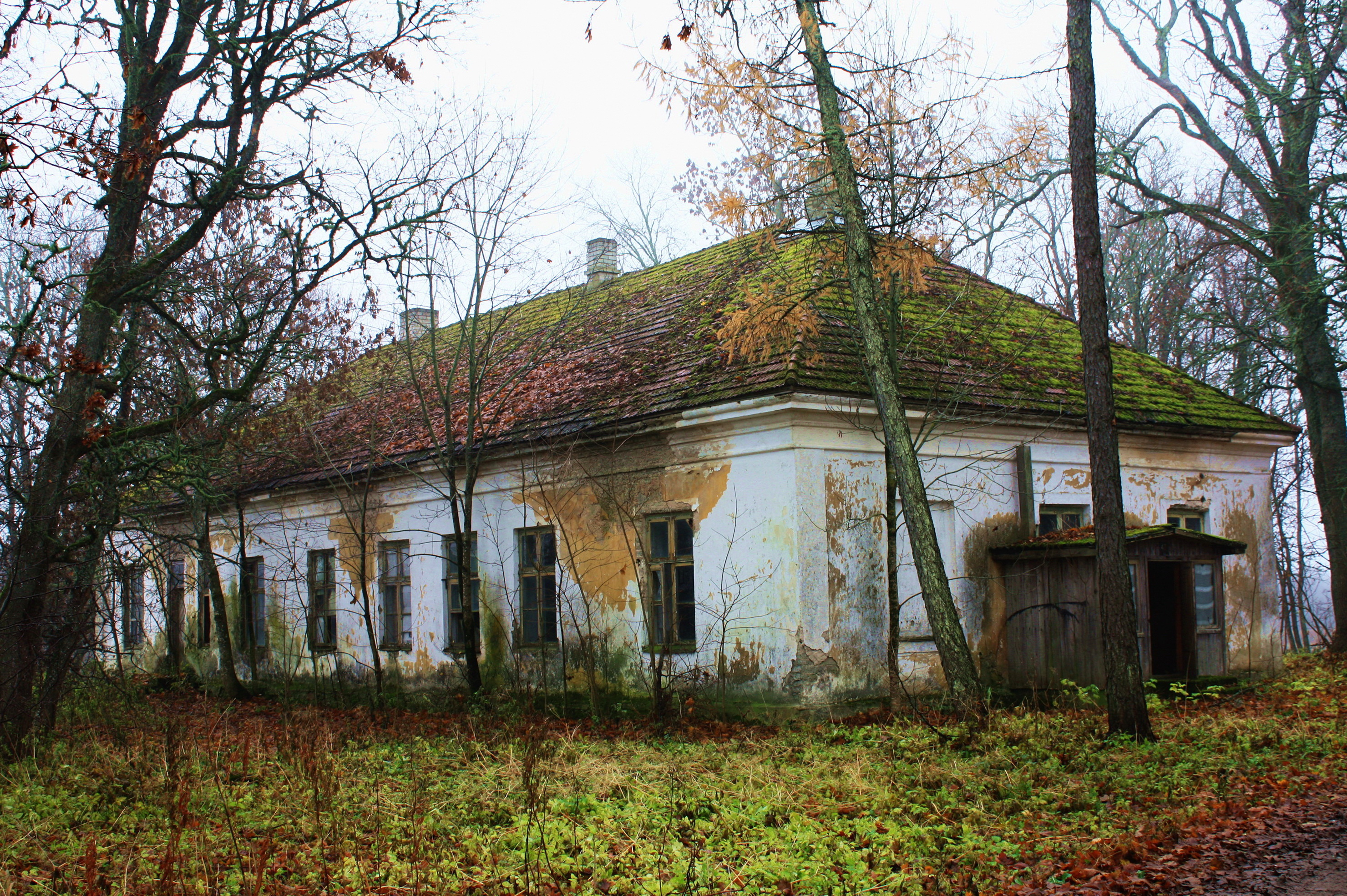 Kautjala manorhouse